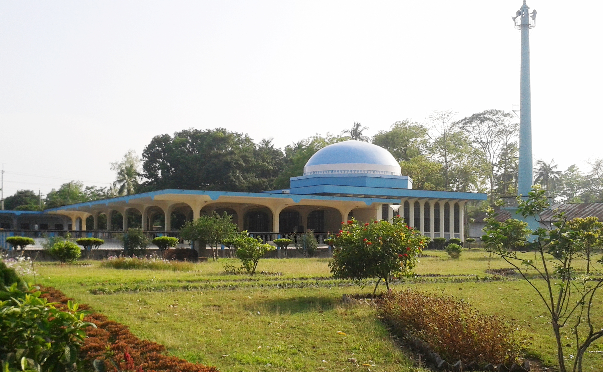 Central mosque of rajshahi university bangladesh